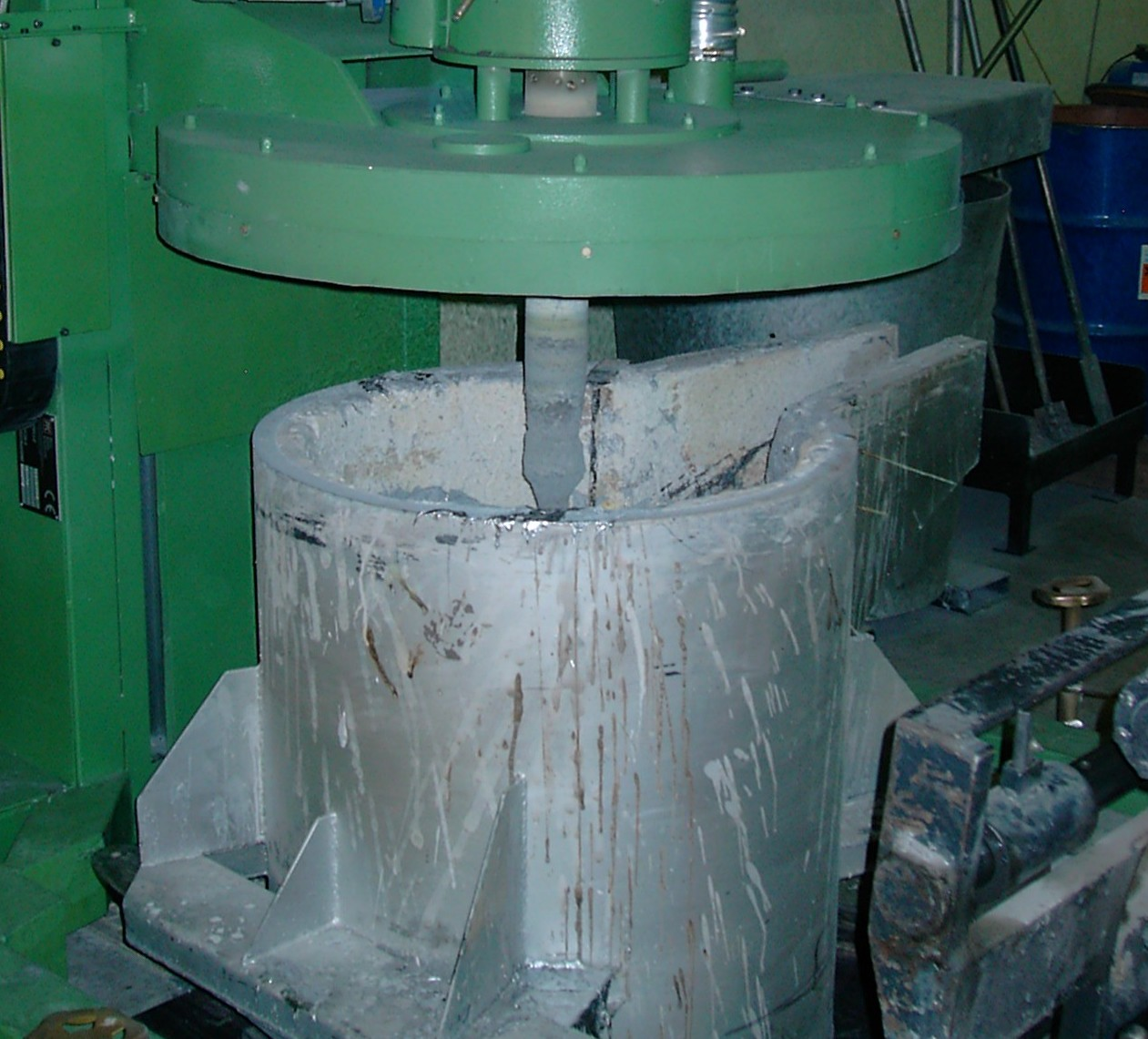 Impeller system prepared for action in a pouring pan - seen from top side